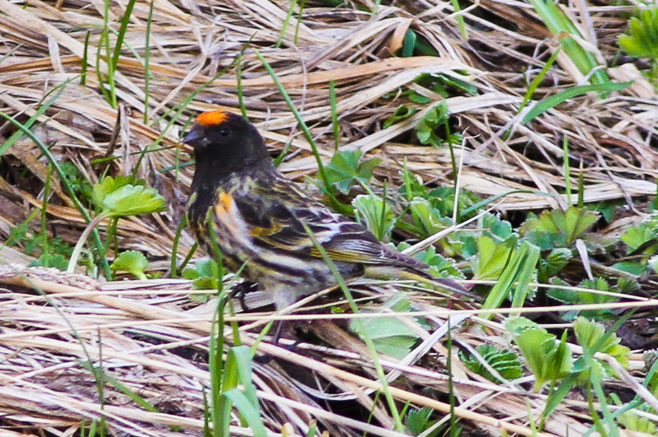 Red-fronted Serin Serinus pusillus, Tien Shan Observatory, Almaty, Kazakhstan.